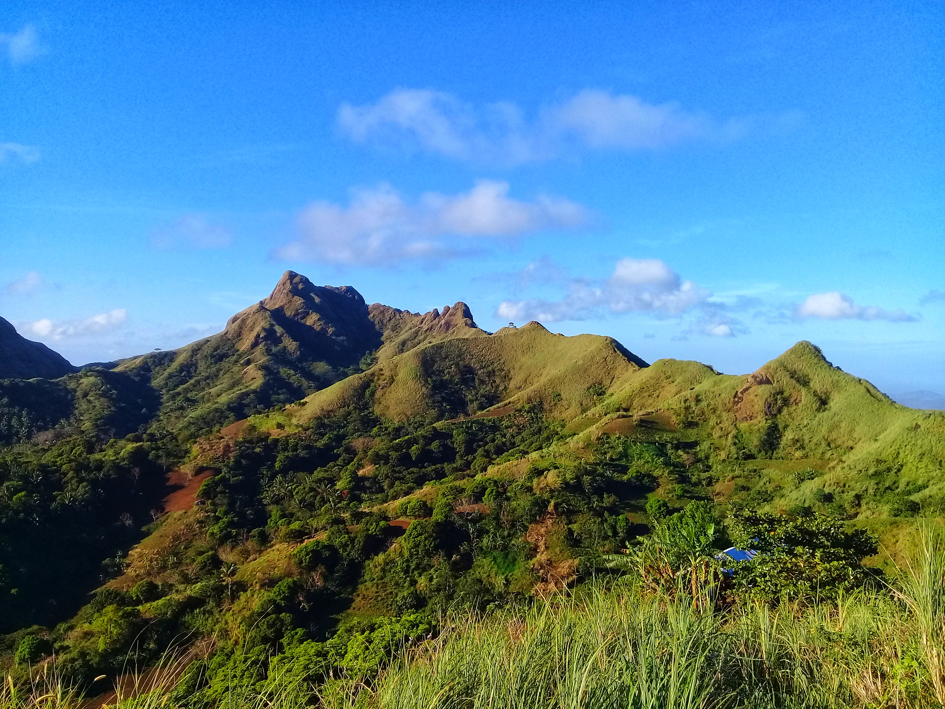 Mt. Batulao, Nasugbu, Batangas, Philippines